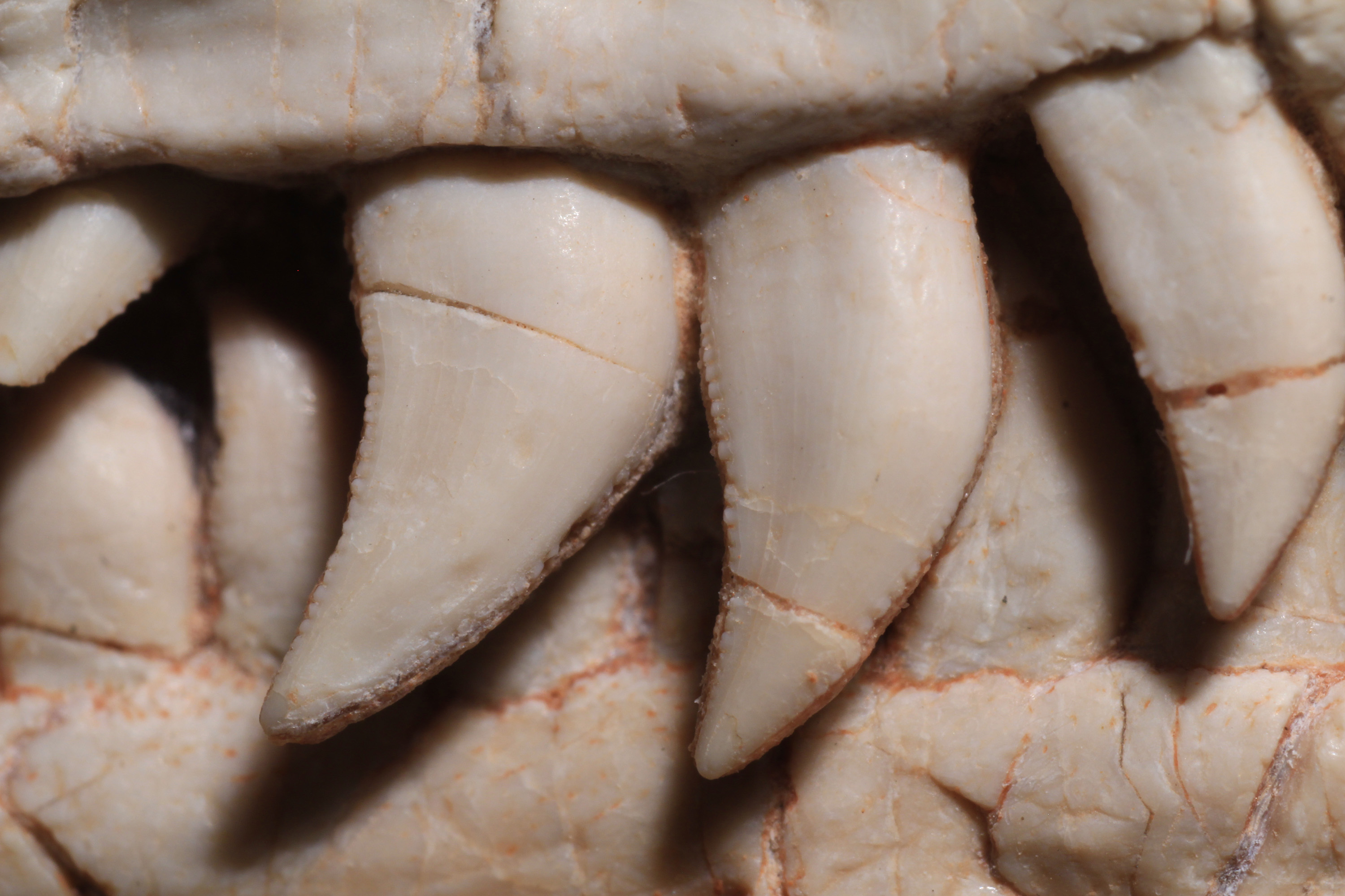 Descoberta realizada em 2009, em São João do Polêsine (RS), gerou estudos que contribuem para a compreensão da evolução dos dinossauros na Terra. Saiba mais no site .